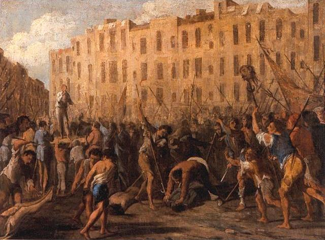 The murder of Don Giuseppe Carafa